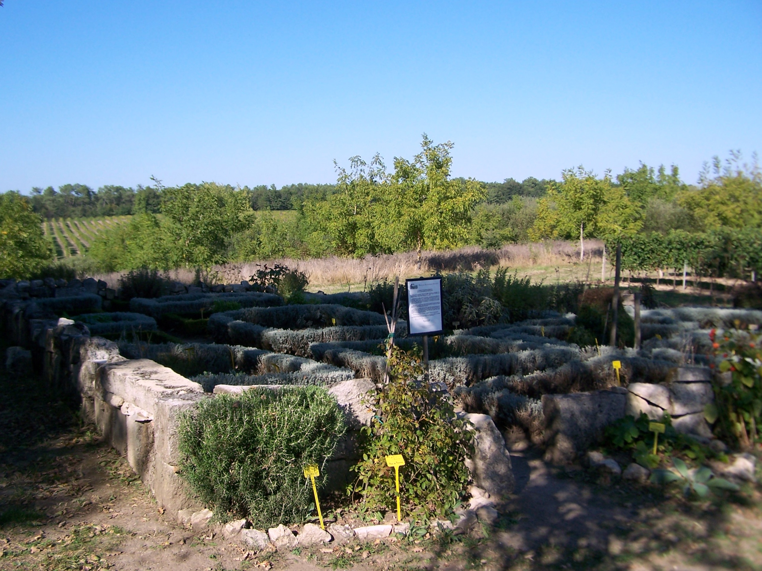 Knights Templar building of Sallebruneau in Frontenac (Gironde, France)